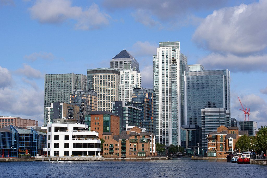 Canary Wharf